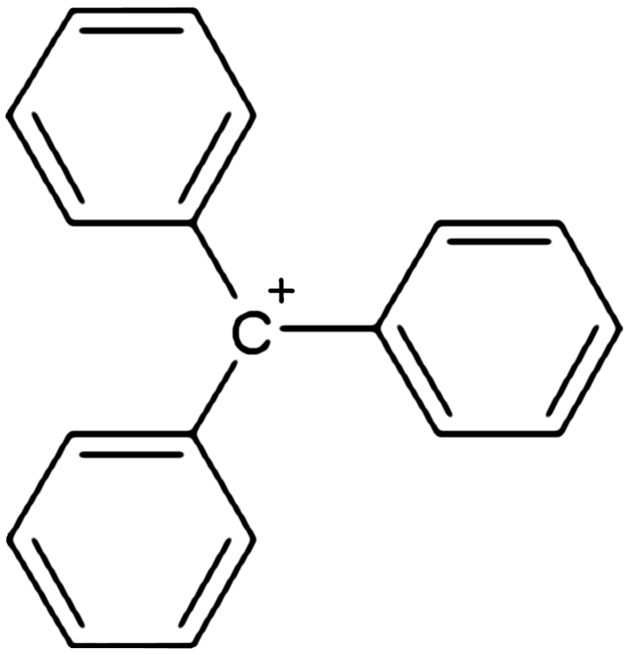 Diagram of triphenylcarbenium, also called "tritylium", "triphenylmethyl cation" or "trityl cation", [(C6H5)3C]+. Created by modifying File:Triphenylmethylradical.png by User:Annabel with Gimp.